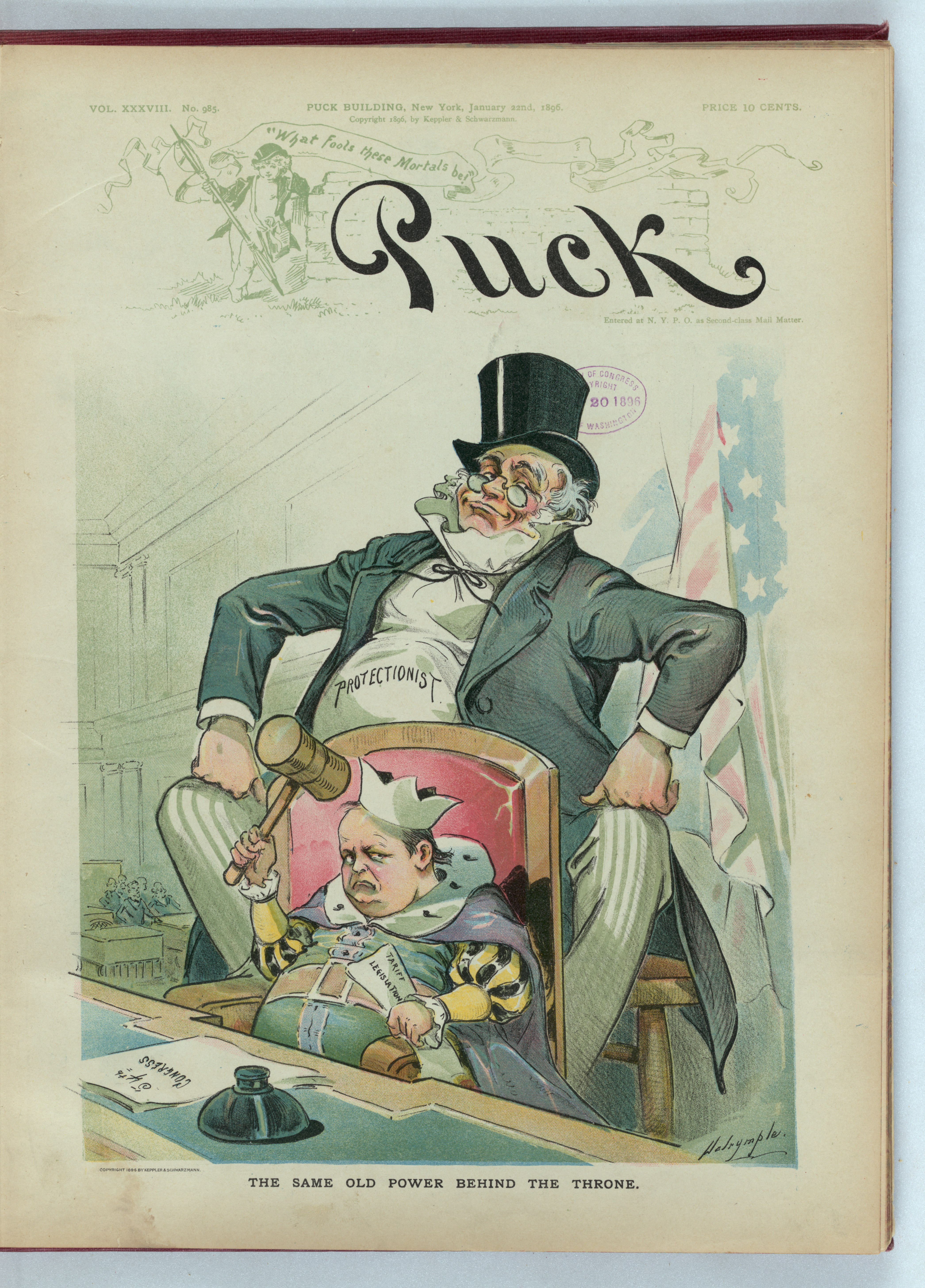 Title: The same old power behind the throne / Dalrymple. Abstract/medium: 1 print : chromolithograph.